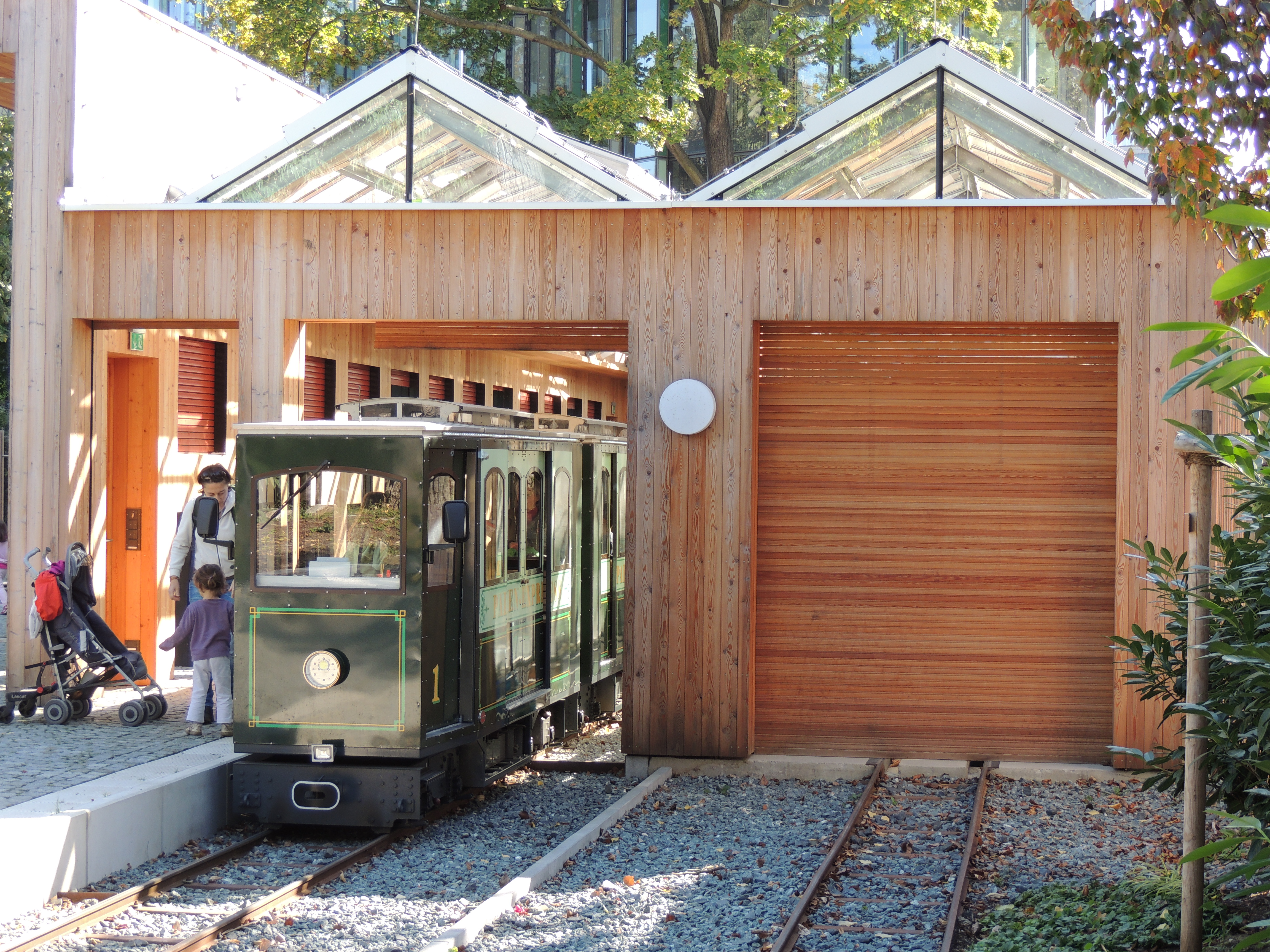 2012 built single-track railway terminus with depot built in 2012 of the Ridable miniature railway Palmen-Express in the Palmengarten in Frankfurt on Main-Westend at the stop Spielplatz (playing ground), state from 2012